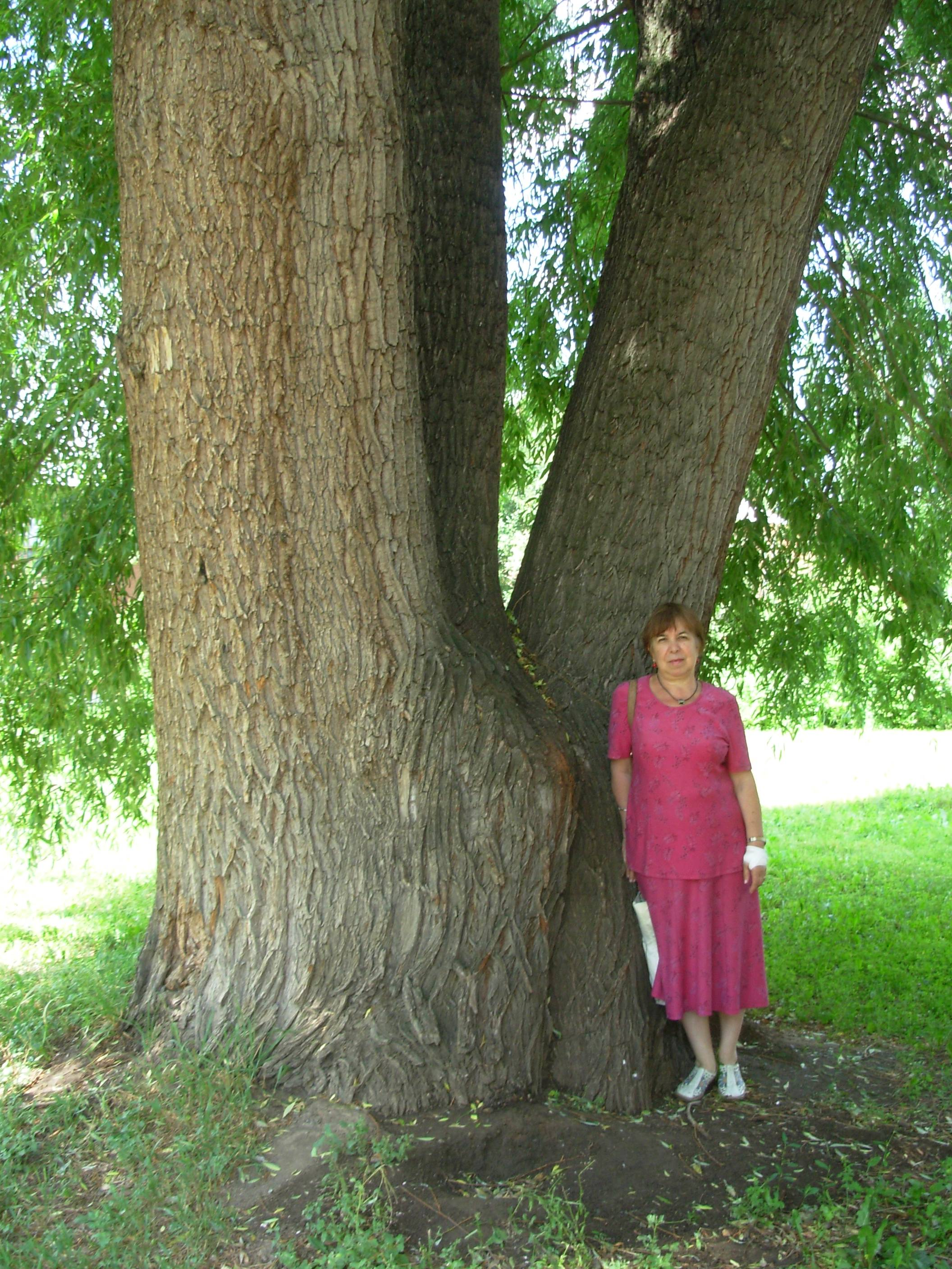 monuments of nature in Salavat Russia